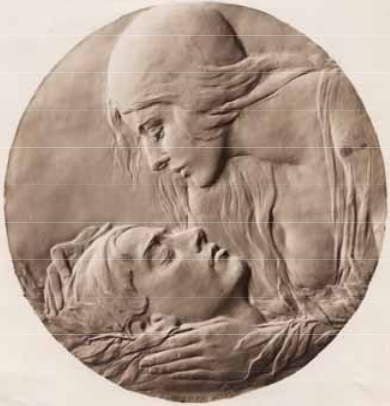 Anzac medal (1916)